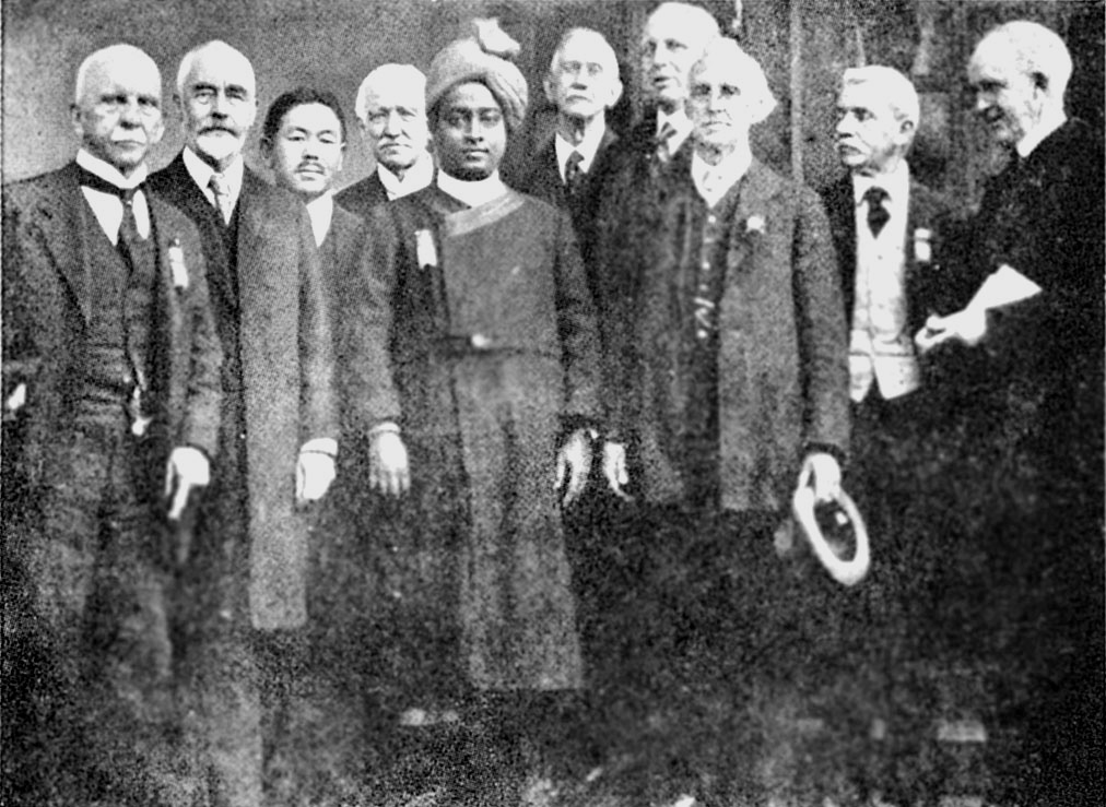 From Public Domain version of Autobiography of a Yogi, at: ; image shows some delegates of the 1920 International Congress of Religious Liberals at Boston, where Yogananda gave his maiden speech in USA. From left: Rev. Clay MacCauley, Rev. T. Rhondda Williams, Prof. S. Ushigasaki, Rev. Jabez T. Sunderland, Yogananda, Rev. Chas. W. Wendte, Rev. Samuel A. Eliot, Rev. Basil Martin, Rev. Christopher J. Street, Rev. Samuel M. Crothers. All of them quoted as in 1946 edition of the book.